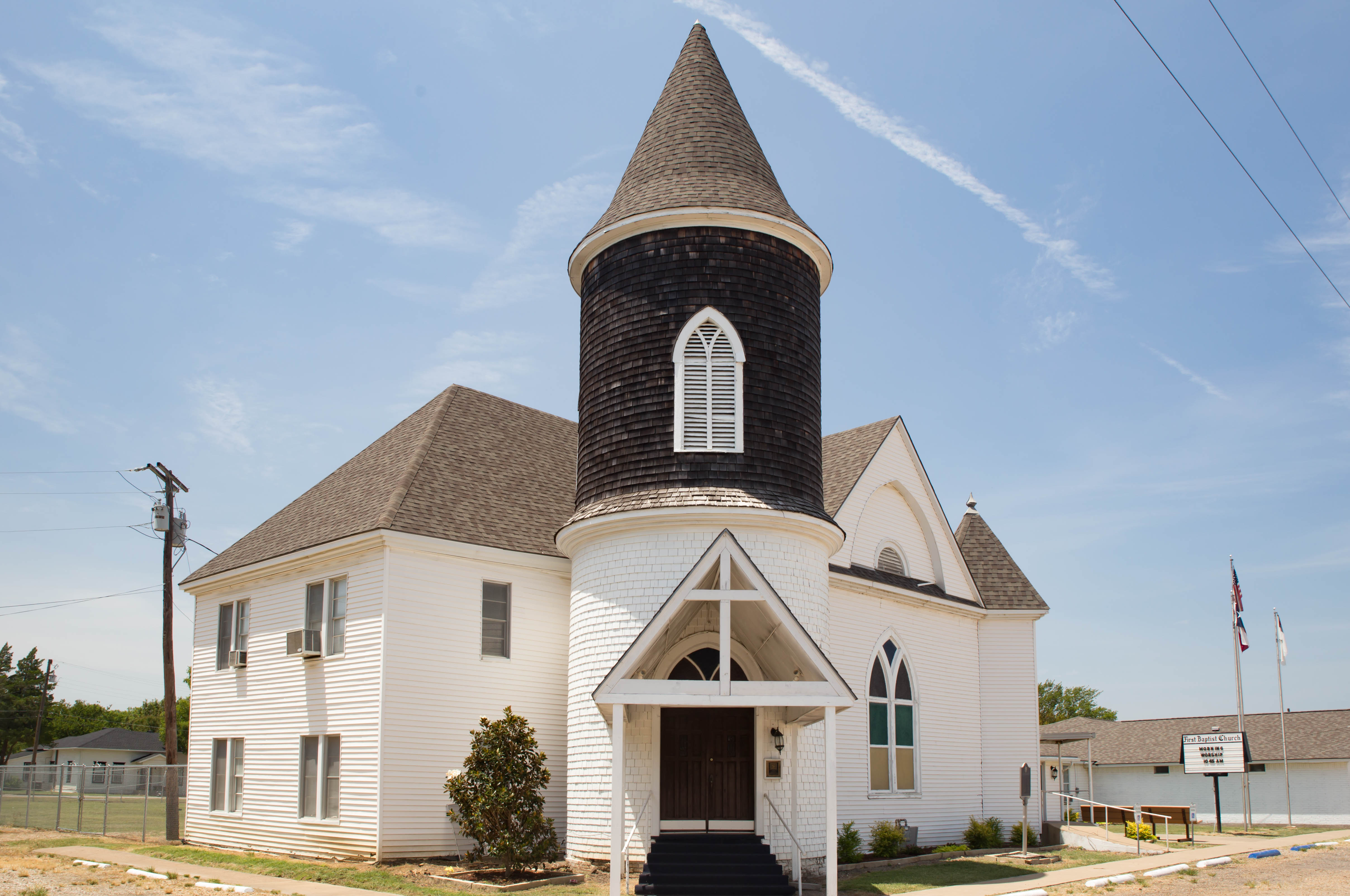 Palmer Baptist Church in Palmer, Texas